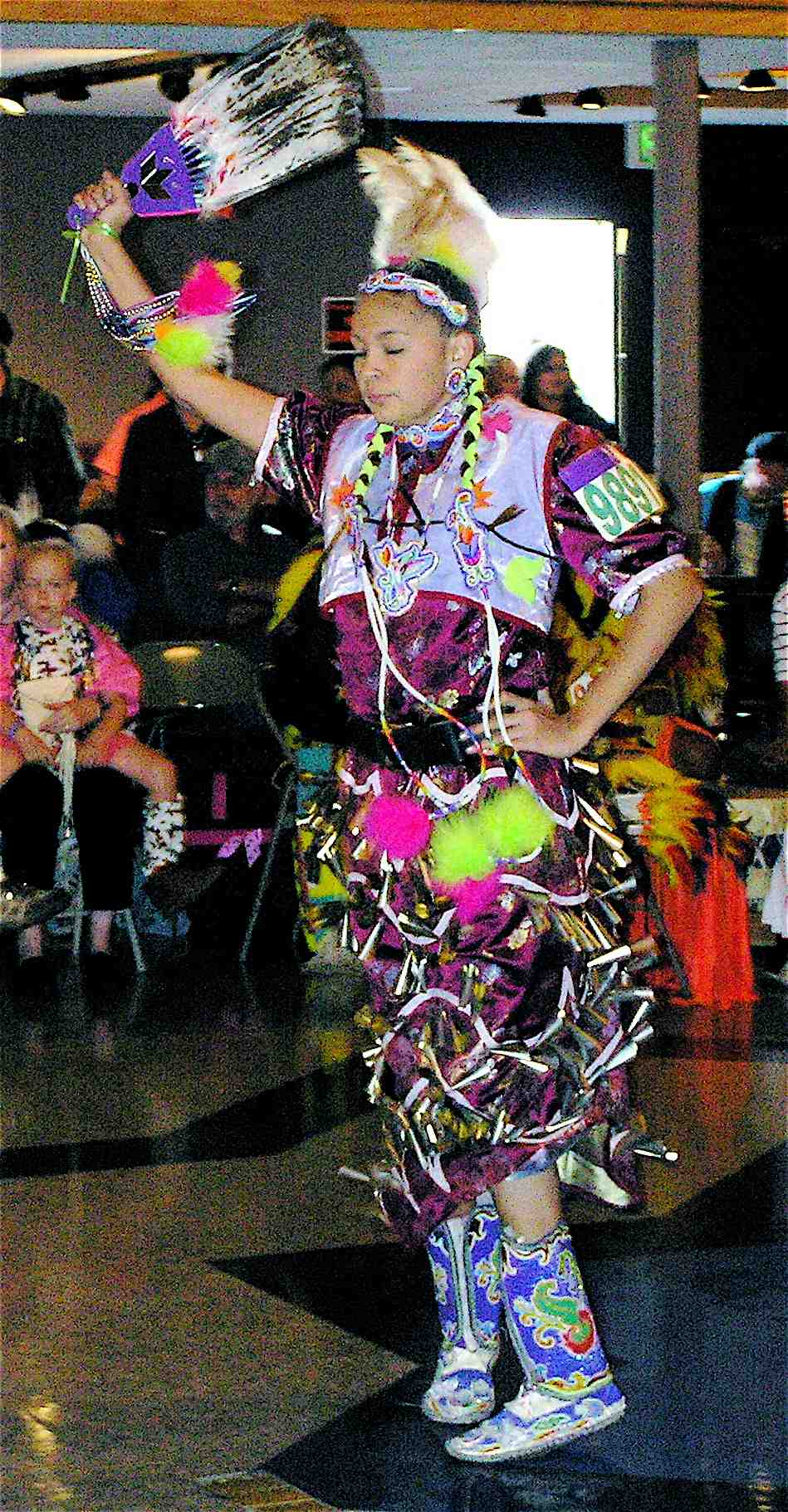 Image from Last Chance Community Pow Wow 2007, Helena, Montana